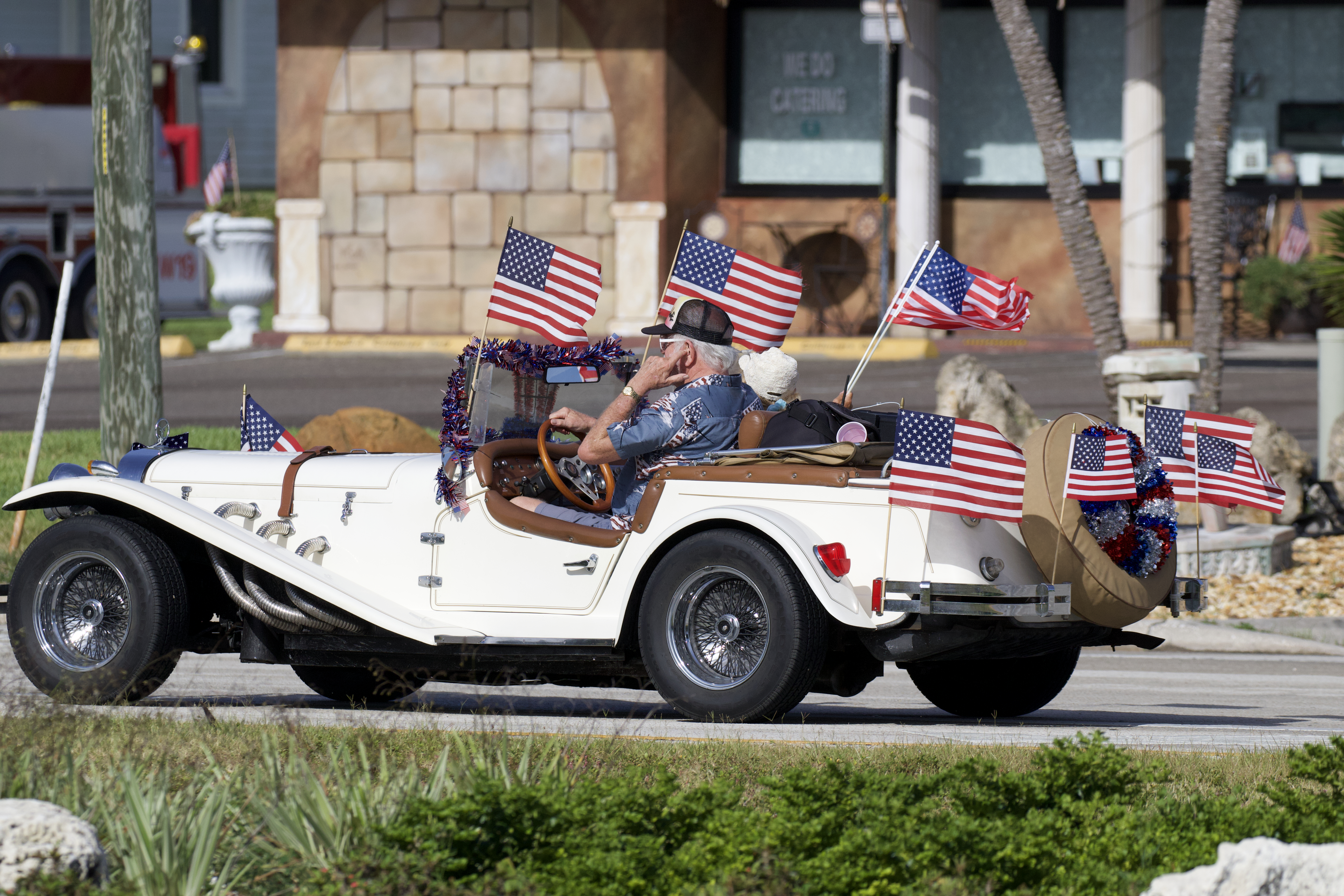 Tierra Verde 4th of July 2020 Thank you for taking your time to view my photos.